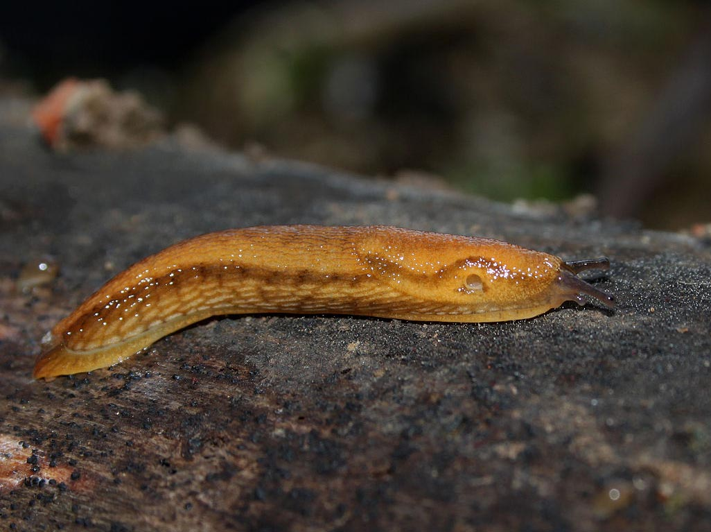 Arion subfuscus, Family: Arionidae, Location: Southern Germany, Ulm, Ringingen